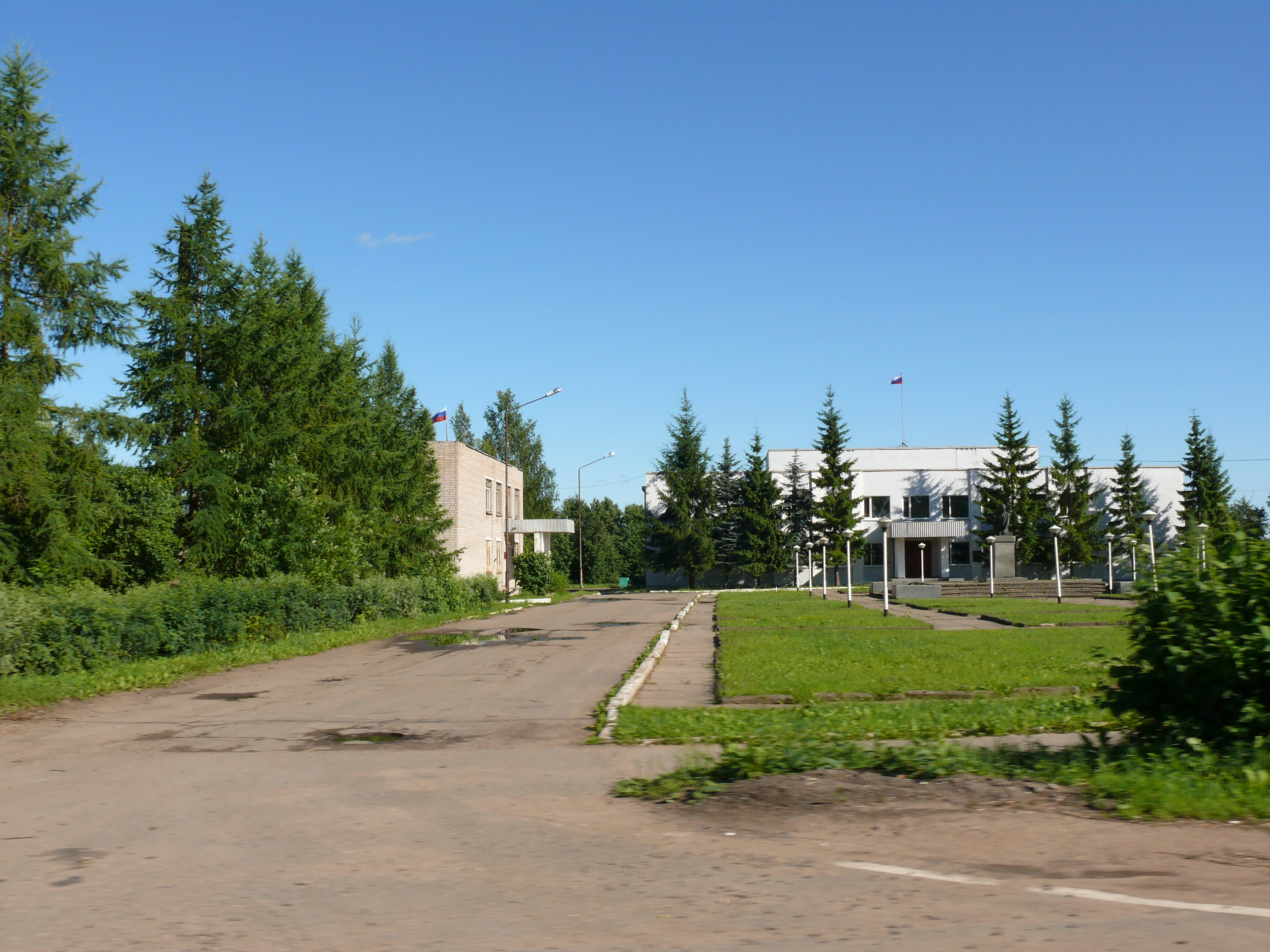 The churche of Nikola Bely. Veliky Novgorod, Russia